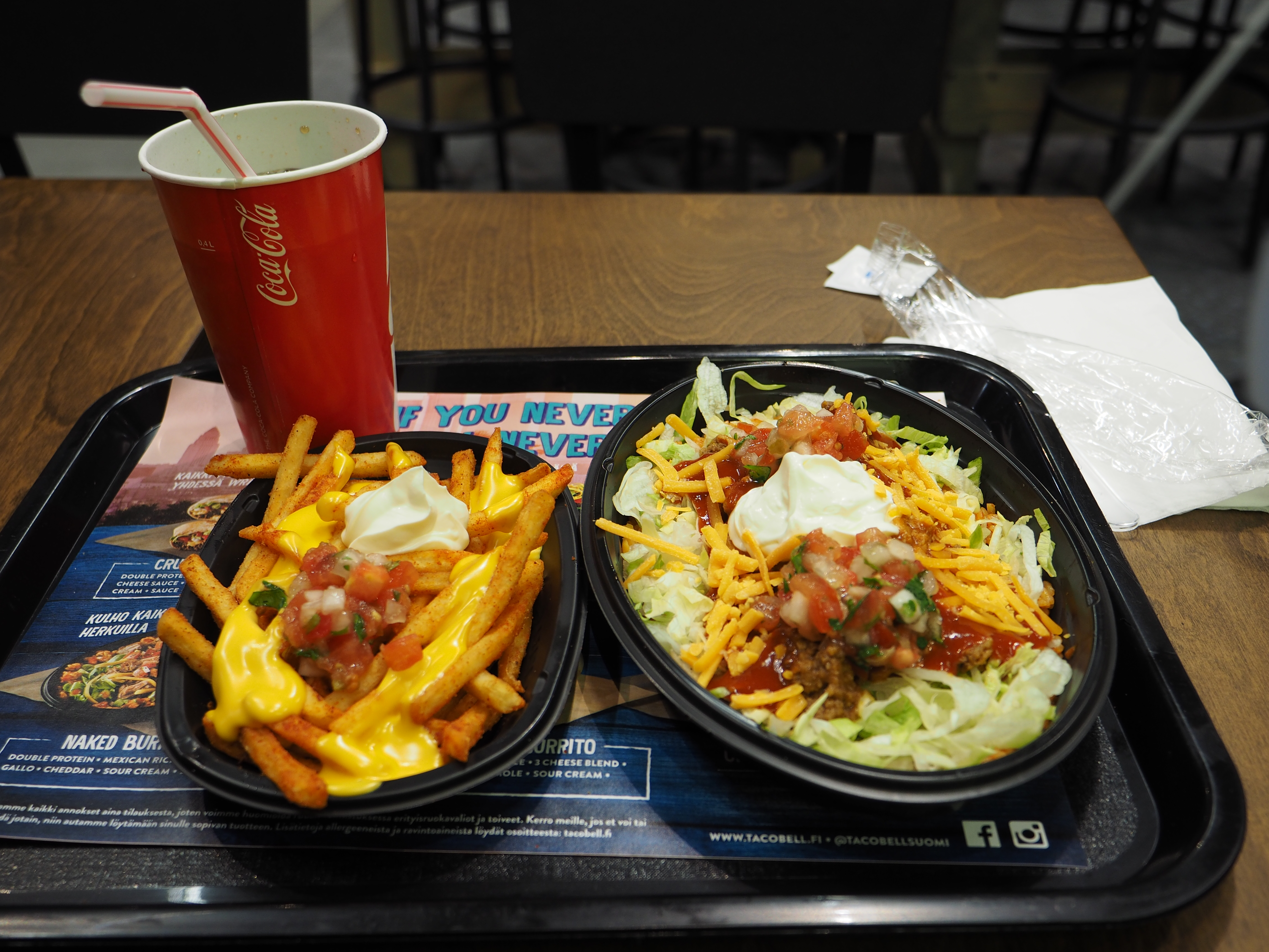 A Naked Burrito Bowl plate, served with seasoned French Fries and a cup of Coca-Cola, at the Taco Bell restaurant in the Iso Omena shopping centre in Matinkylä, Espoo, Finland.